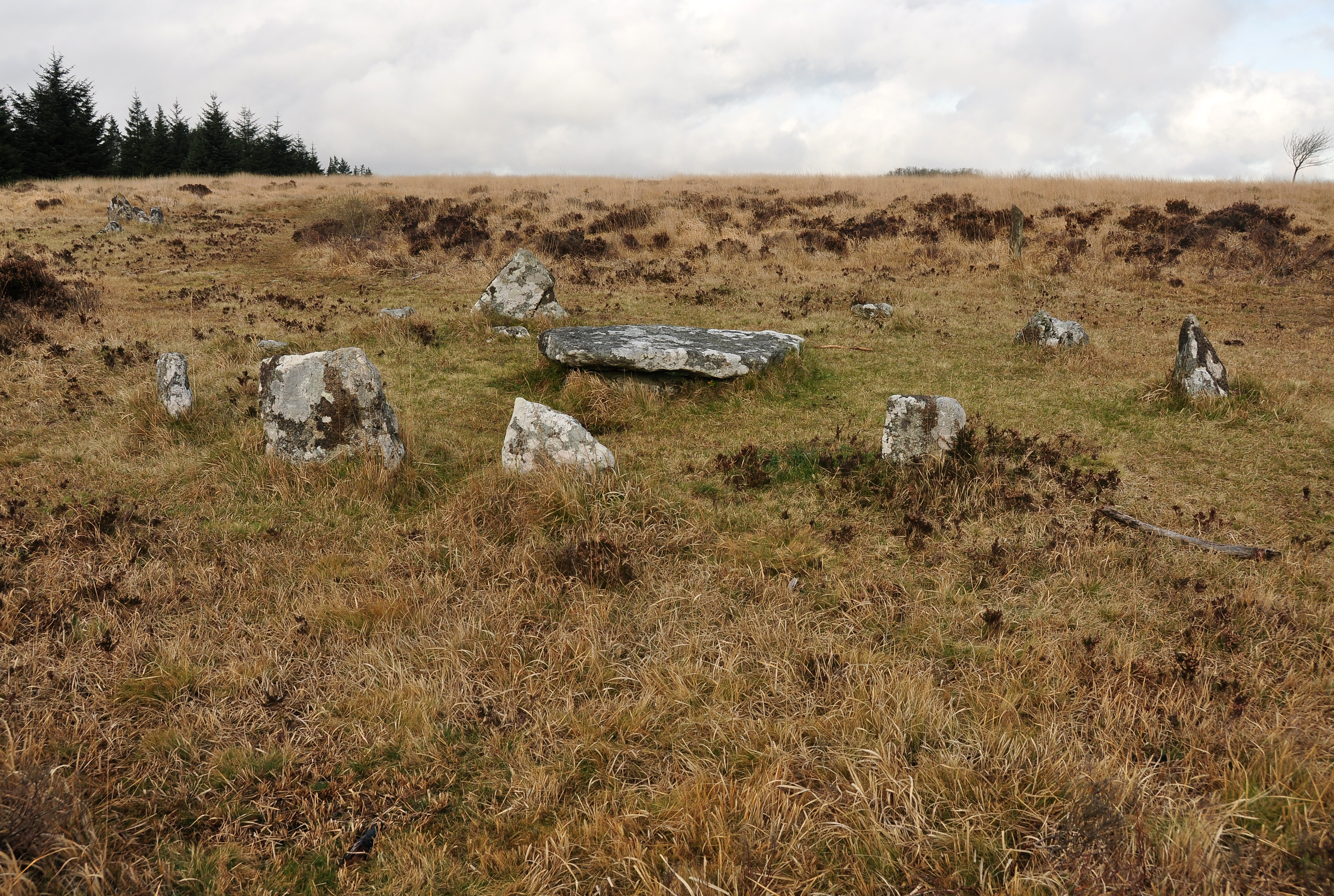 A stone circle and cist on Lakehead Hill, in central Dartmoor.